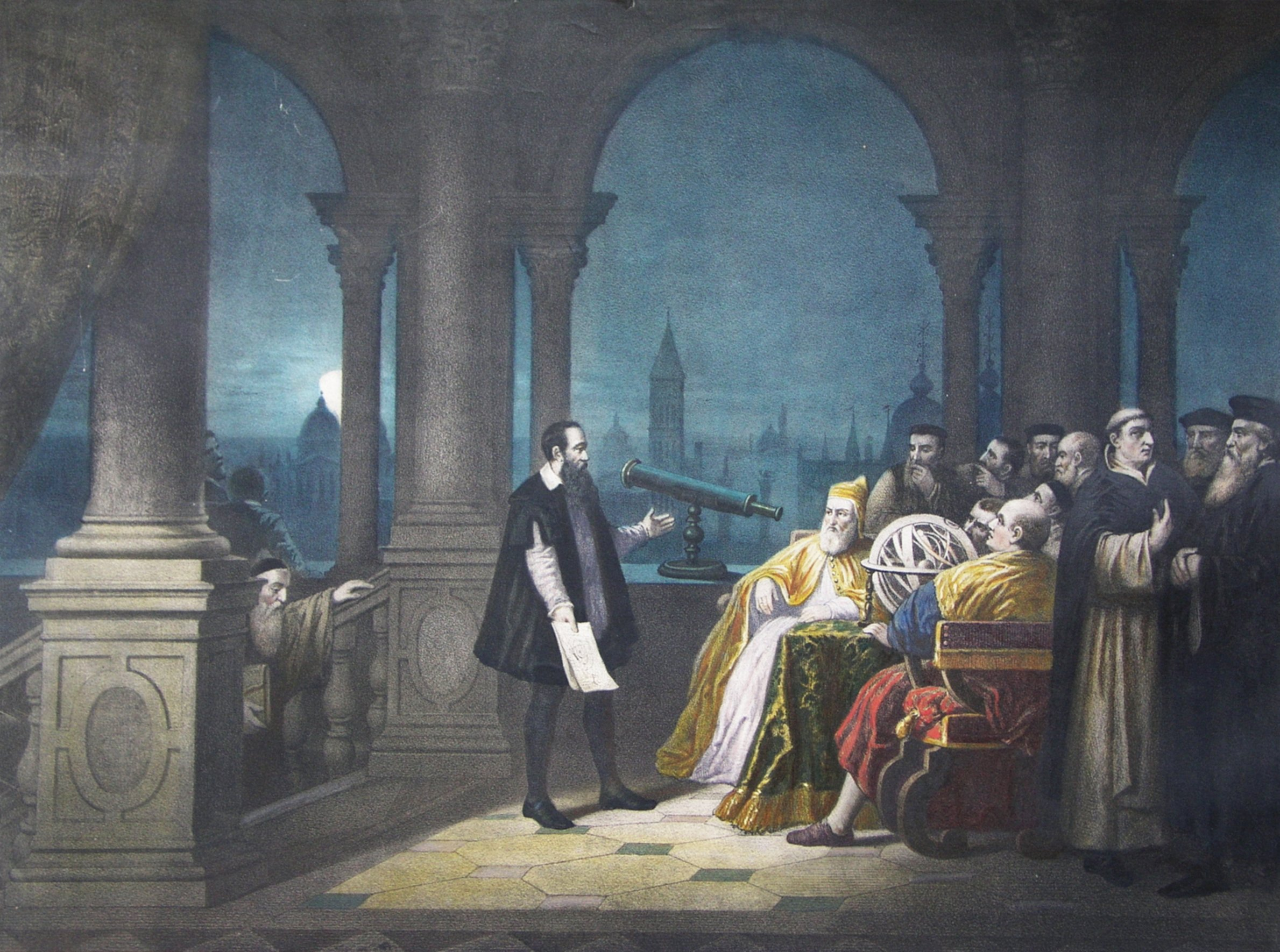 Imaginative painting showing Galileo Galilei displaying his telescope to Leonardo Donato.